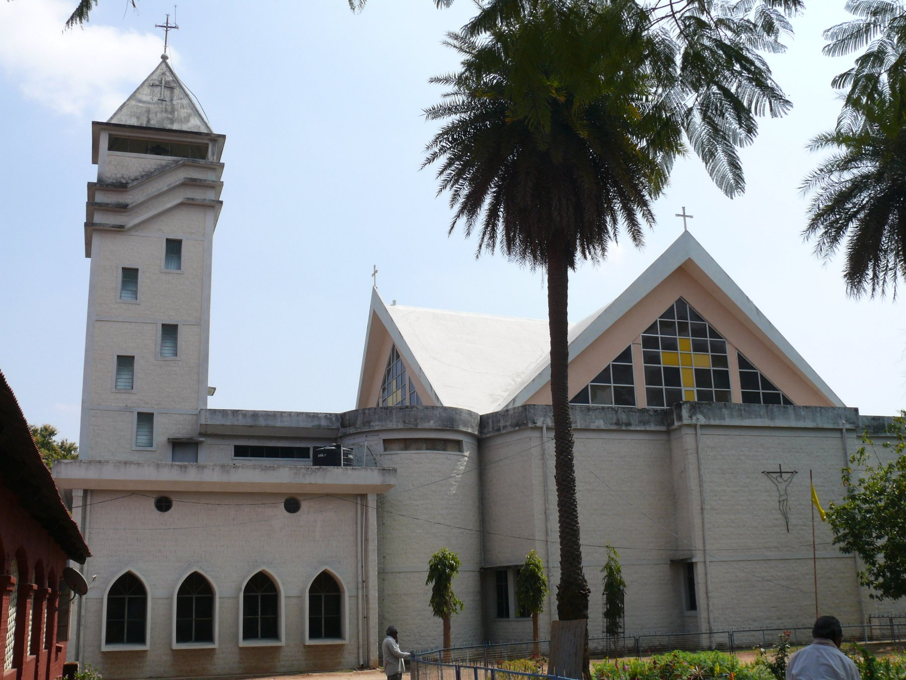 Saint-Patrick's cathedral of Gumla (Jharkhand, India).